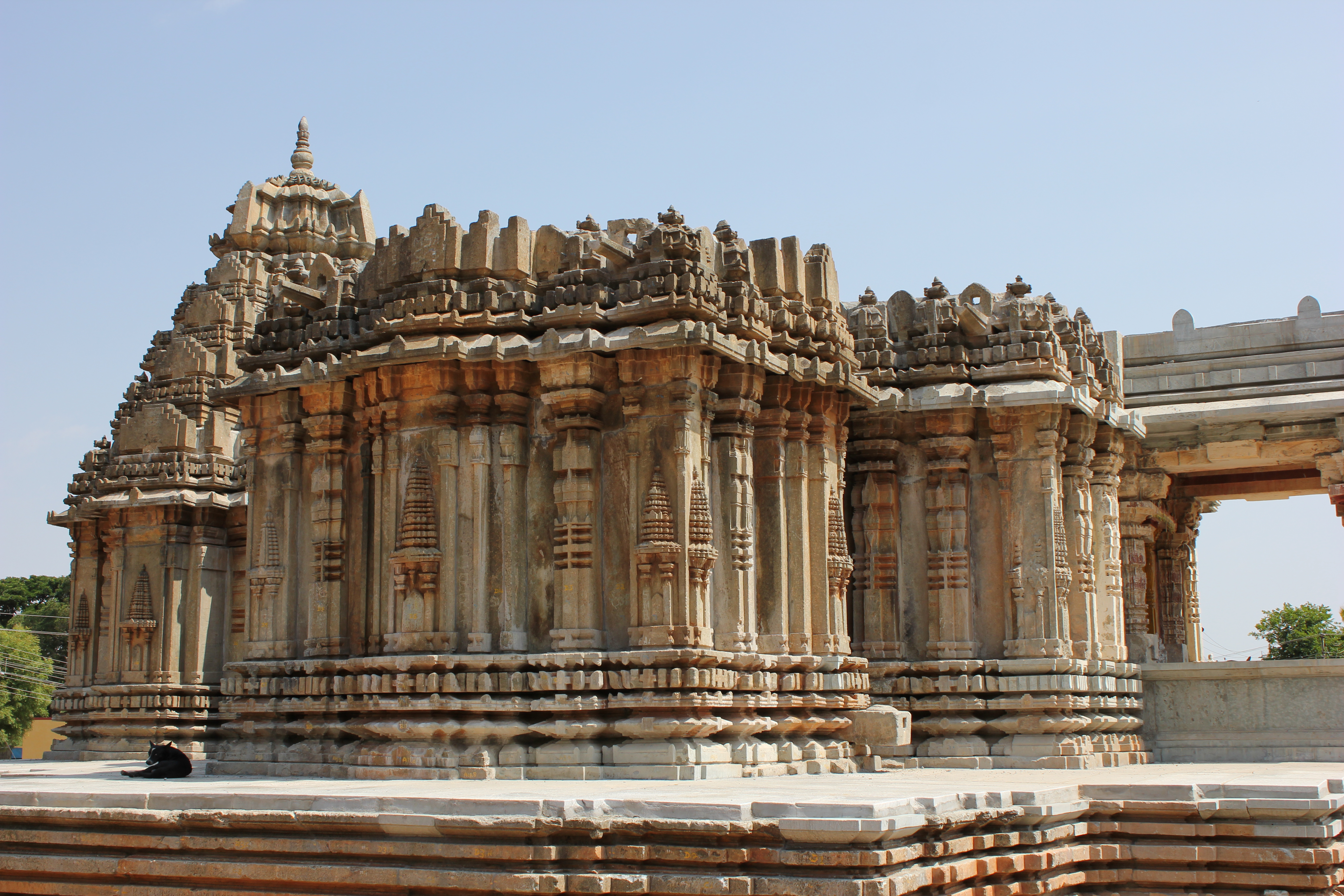 This photograph was taken by me (Dinesh Kannambadi) in the Yoga Madhava temple at Settikere, Tumkur district, Karnataka state, India. The temple was built in 1261 AD during the rule of the Hoysala Empire King Narasimha III.